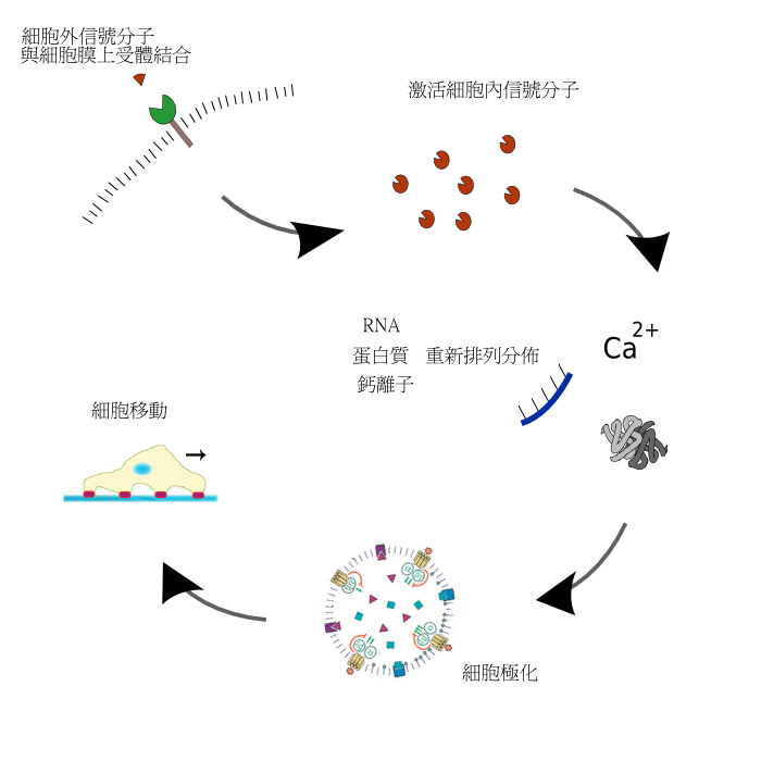 Overview of Cell migration.